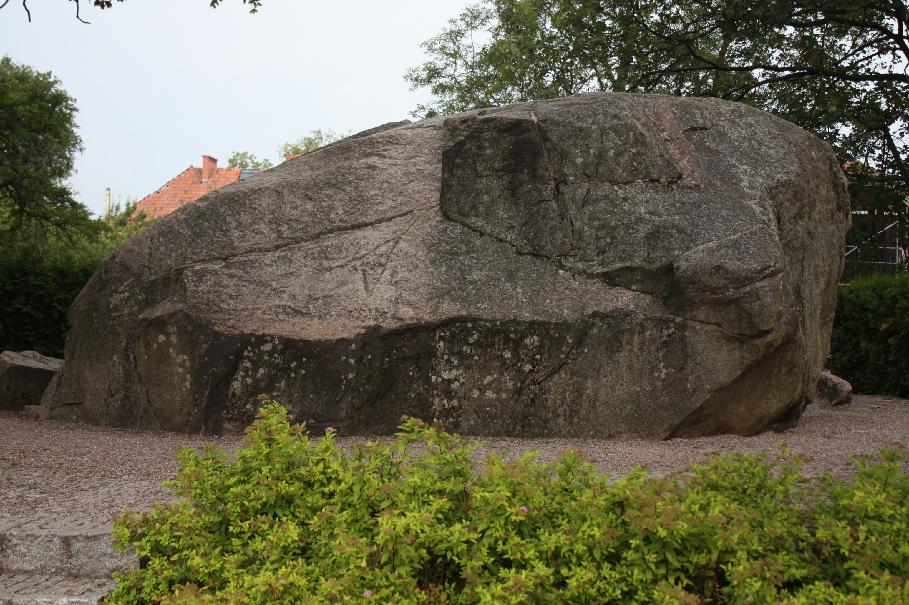 This photo of Warmian-Masurian Voivodeship was taken during Wikiexpedition 2012 set up by Wikimedia Polska Association.You can see all photographs in category Wikiekspedycja 2012. The making of this document was supported by Wikimedia Polska.